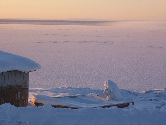 There's something about the light in Deline